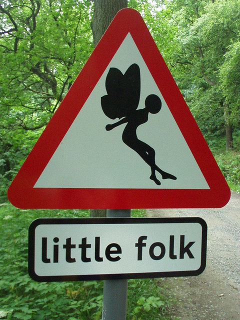 Look out for the little folk This road sign was in fact an installation on the Hebden Bridge Sculpture Trail at Hardcastle Crags in 2004.